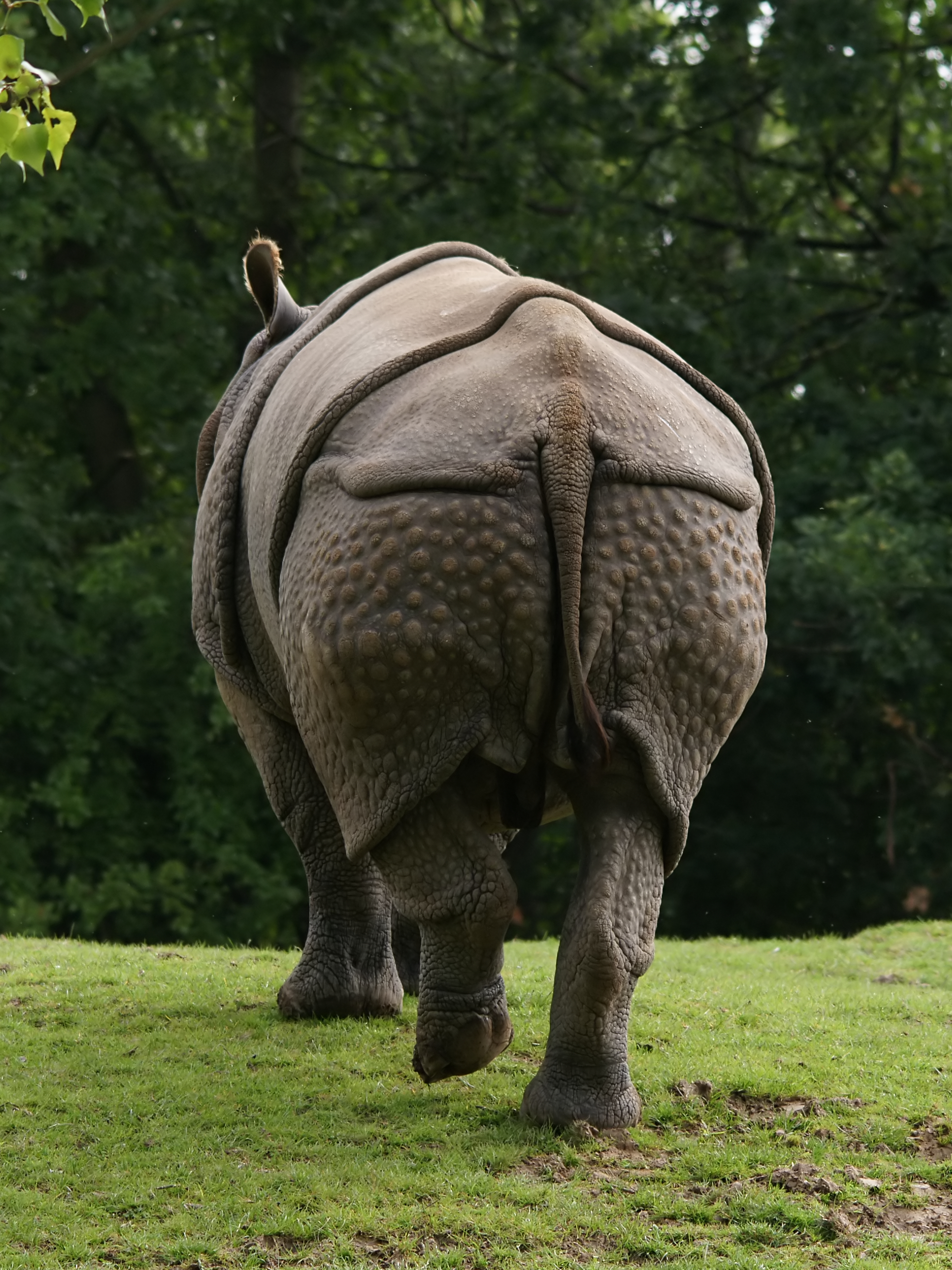 Male Indian Rhinoceros at Chester Zoo near Chester, UK.